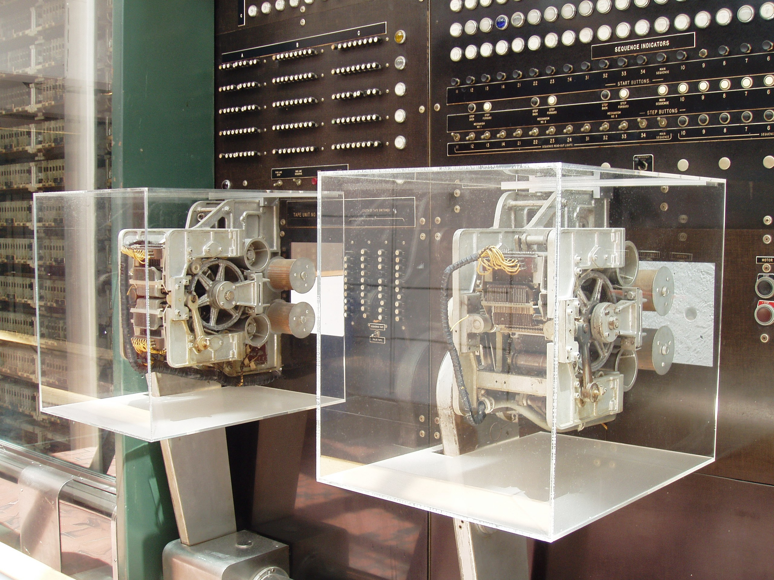 Harvard-IBM Mark I Computer, detail of Input/Output and control. This machine is in the Cabot Science Building, Harvard University, Cambridge, Massachusetts. Photograph taken by me, July 2005.